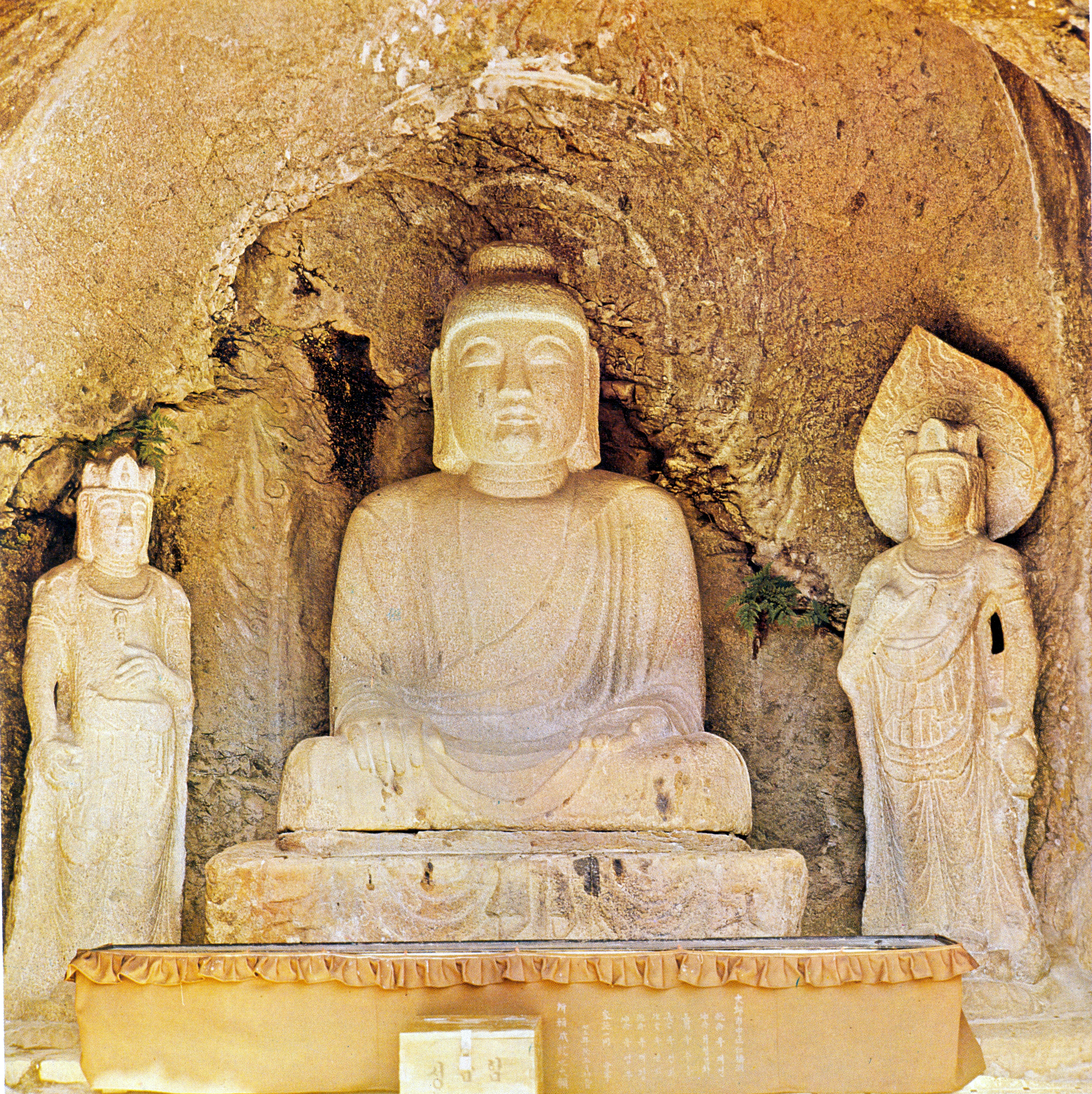 Statue of Three precious Amitābha in Gunwi, Korea